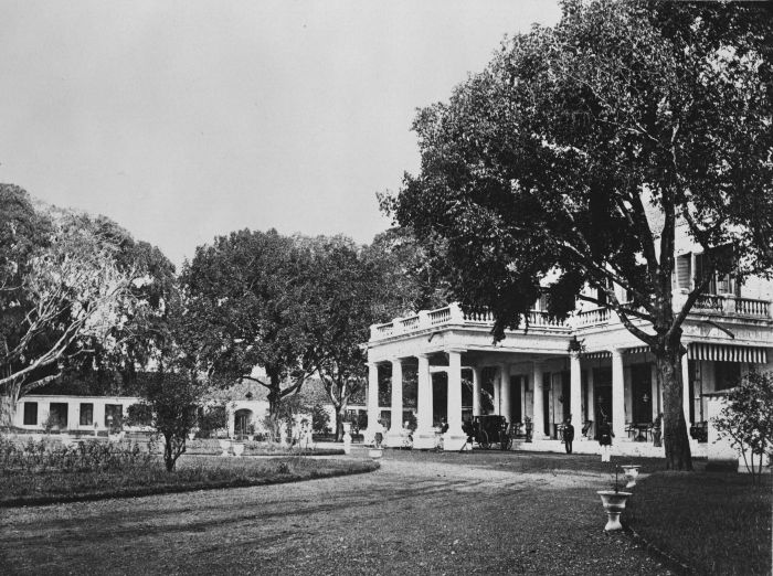 The house of the 'Resident'